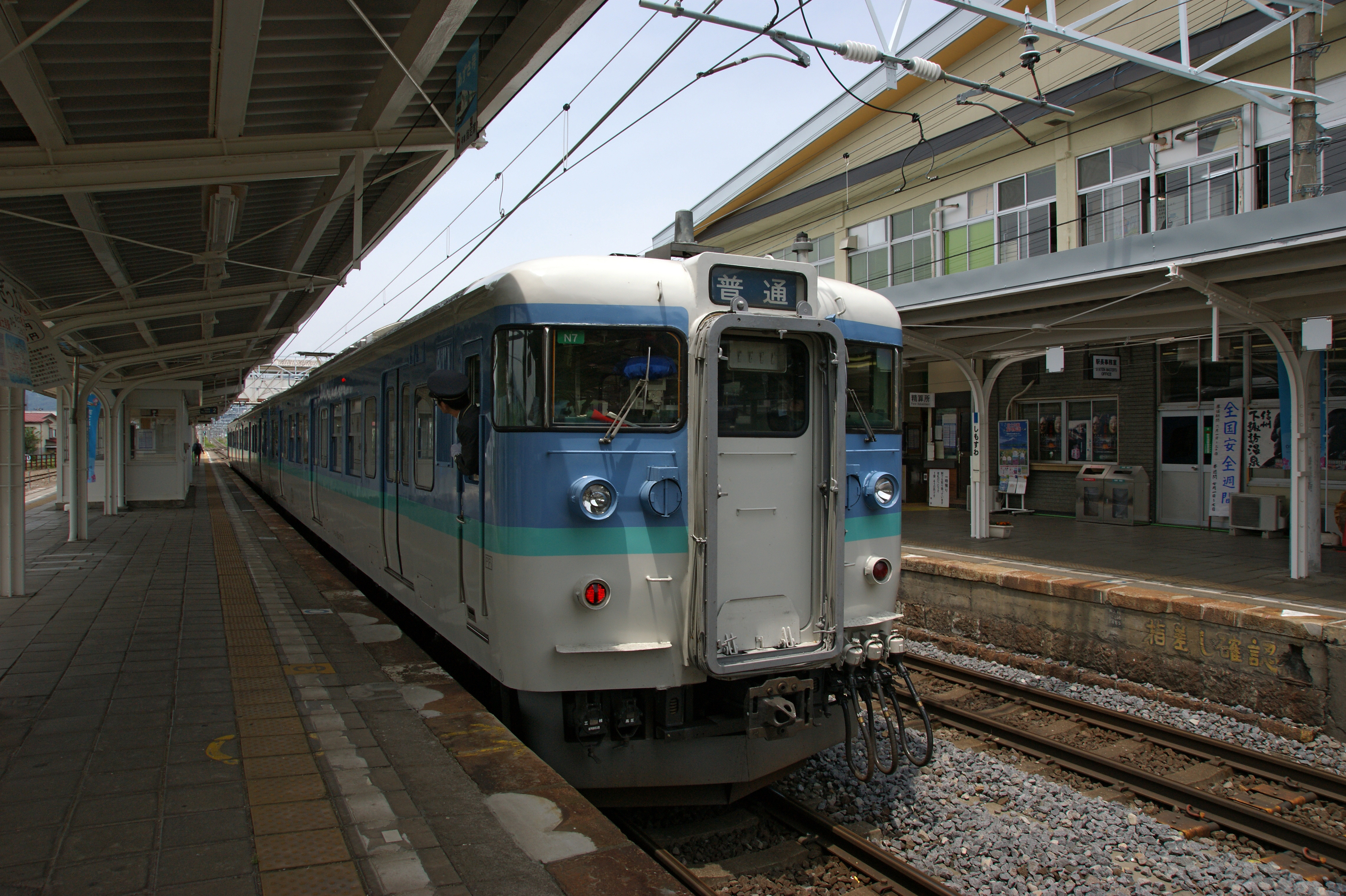 Shimosuwa Station, Shimosuwa Nagano prefecture, Japan